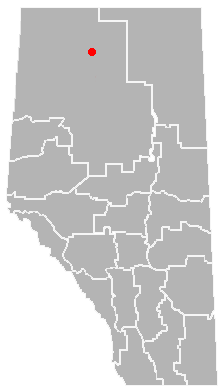 Location of Fort Vermilion, Alberta